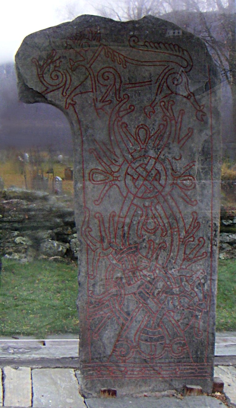 The image stone outside Vang church